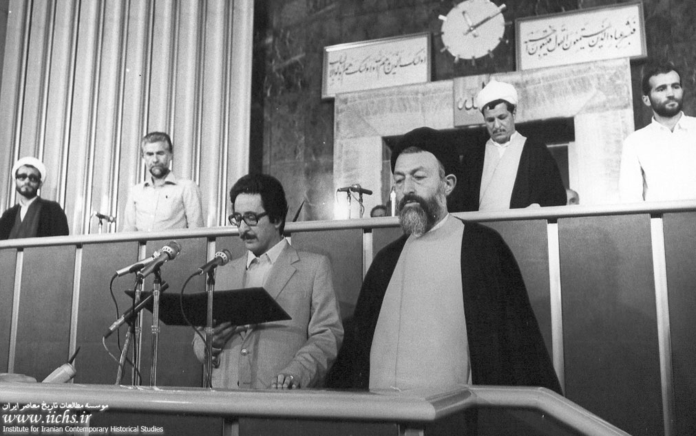 Banisadr, first Iranian prsident at parliment